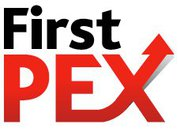 FirstPEX logo